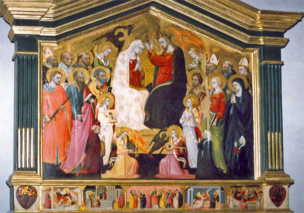 Coronation of Virgin. Bicci di Lorenzo. Santa Trinita. Florence